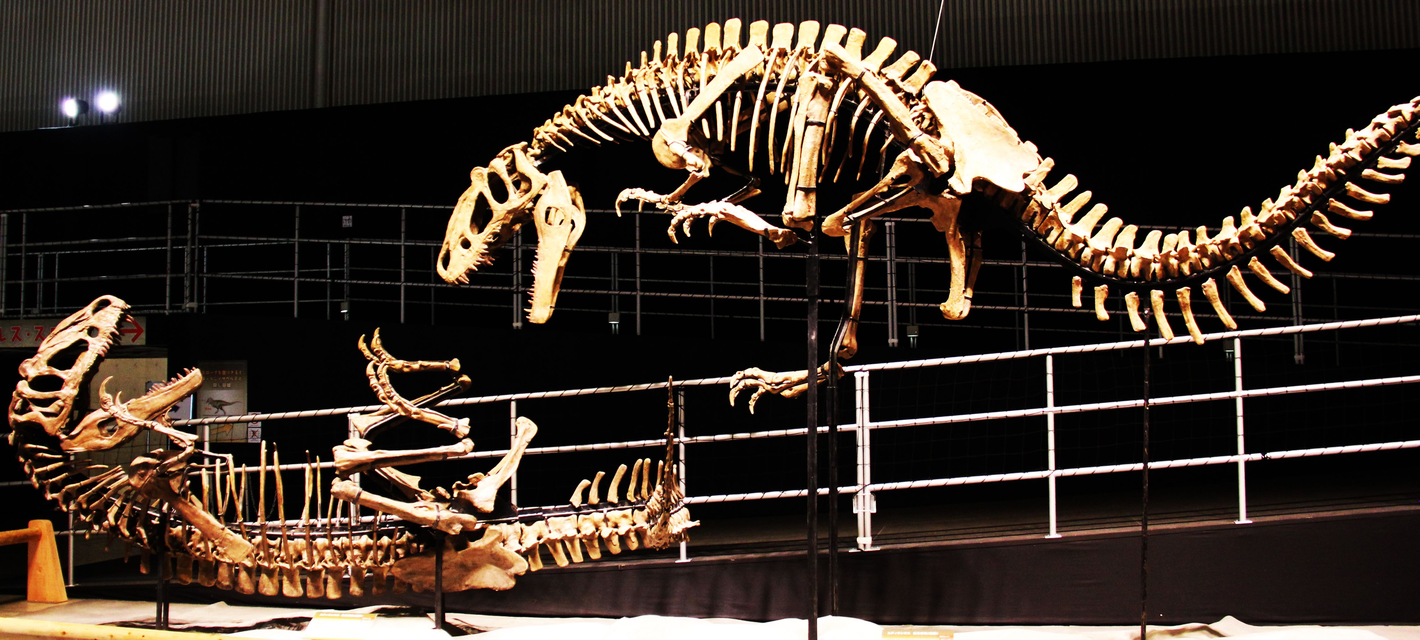 Replica Yutyrannus huali skeletons mounted in a fighting pose inspired by Charles R. Knight's painting of Laelaps. Dino-Kingdom 2012, Tokyo, Japan.